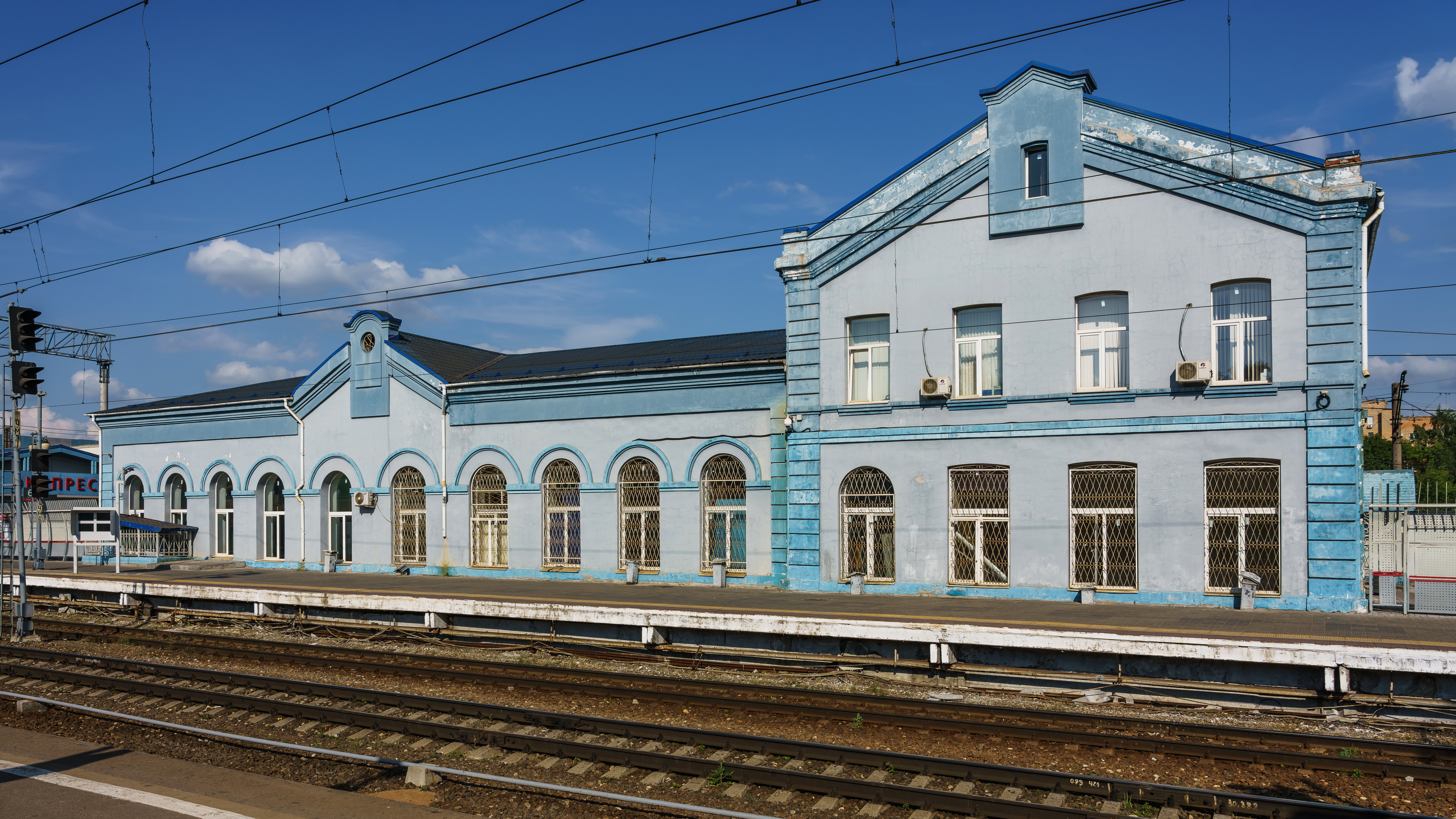 Railway station in Pushkino, Moscow Oblast, Russia